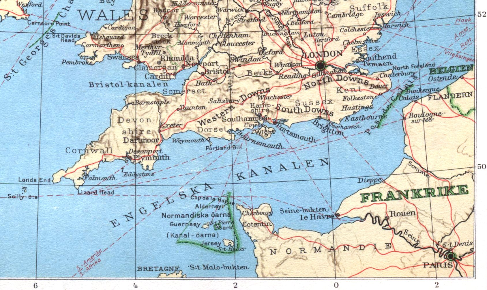 Map of the English Channel with Swedish text